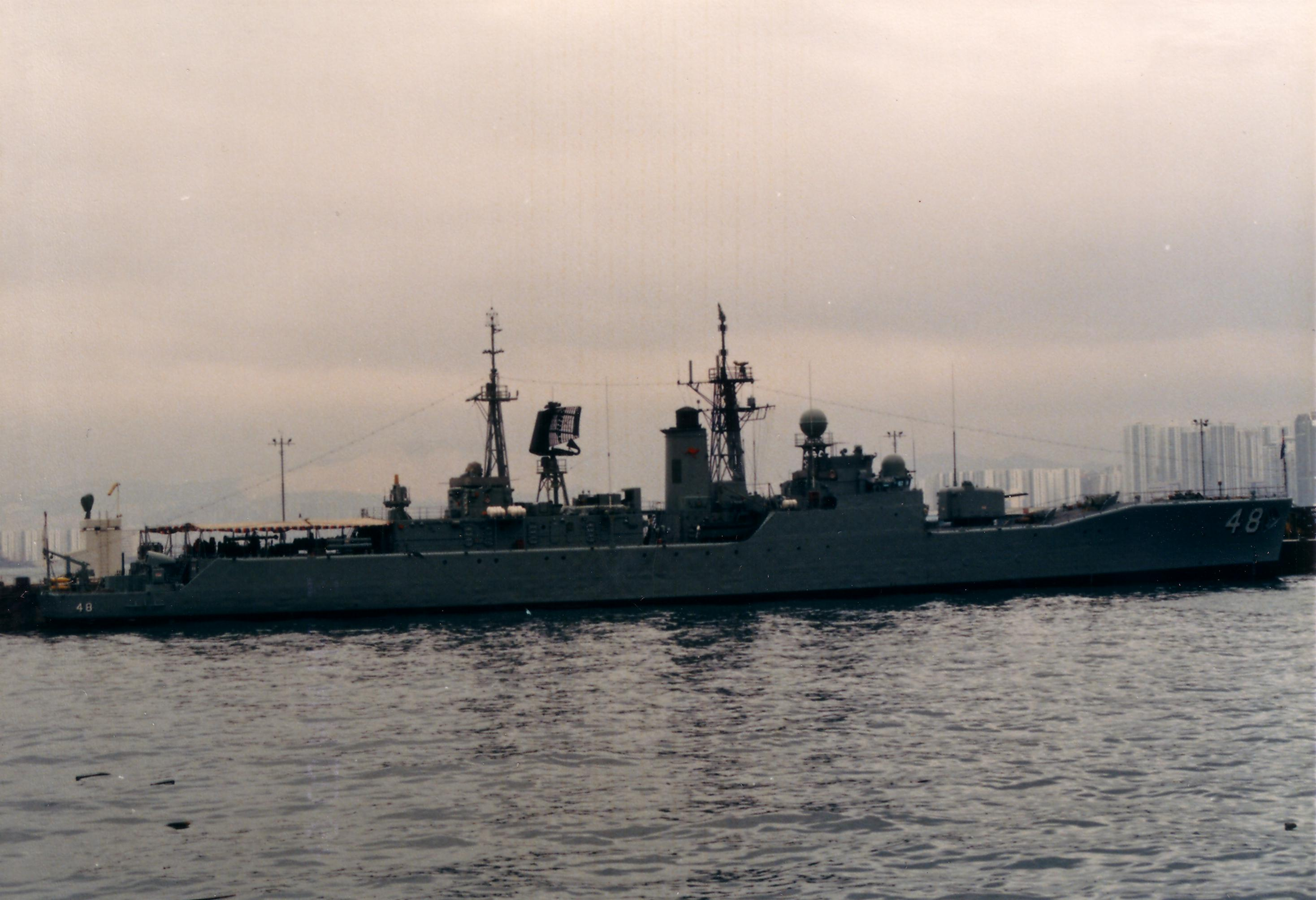 HMAS Stuart (DE 48) in Hong Kong.